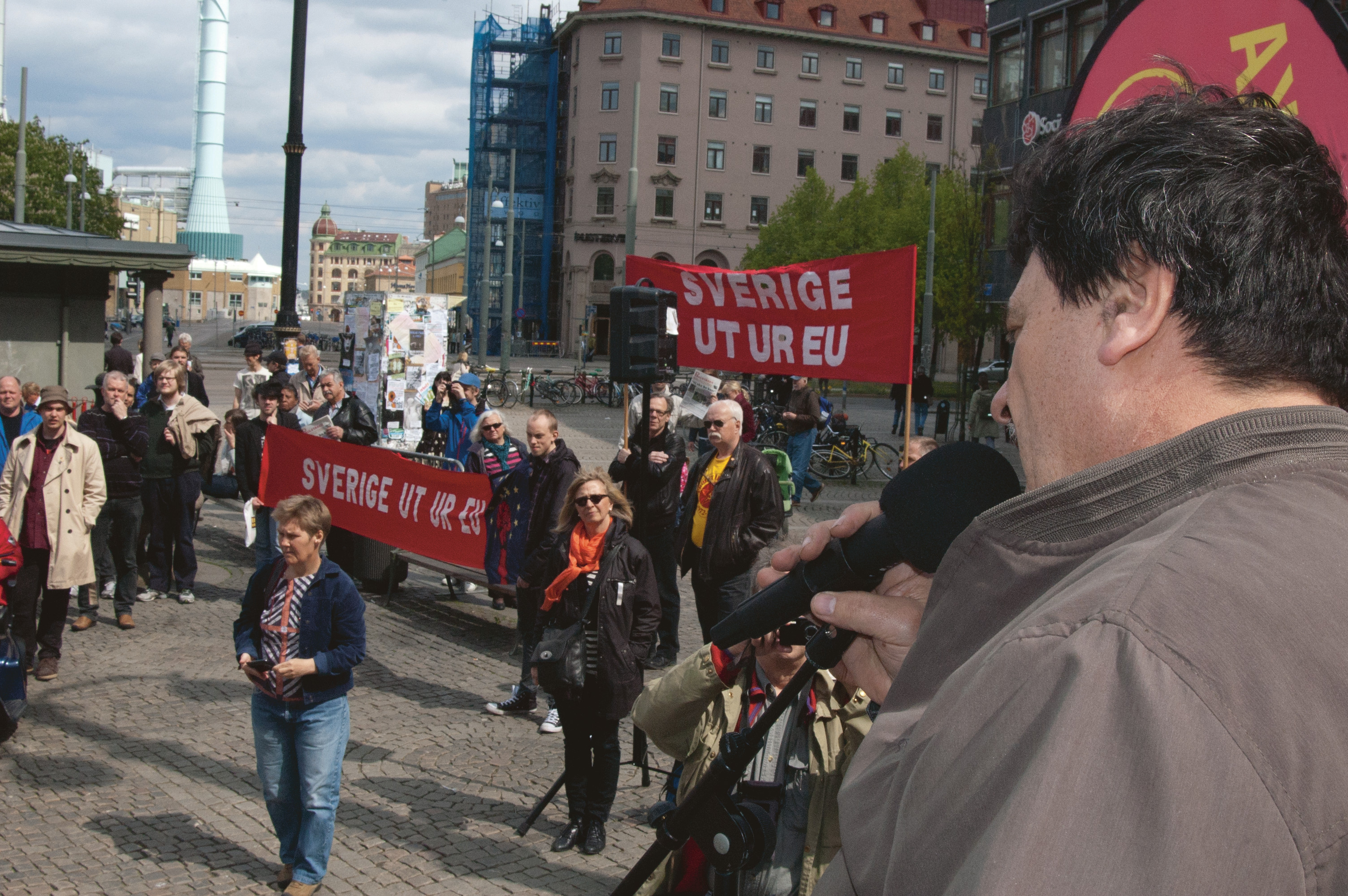 Panos Apergis, representative of the Greek communist party speek at a solidarty meeting on behalf of the Greek steel workers on strike in Elliniki Halivurja. The place is Järntorget, Gothenburg.